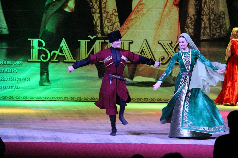 Vainakh dance - Khelkhar